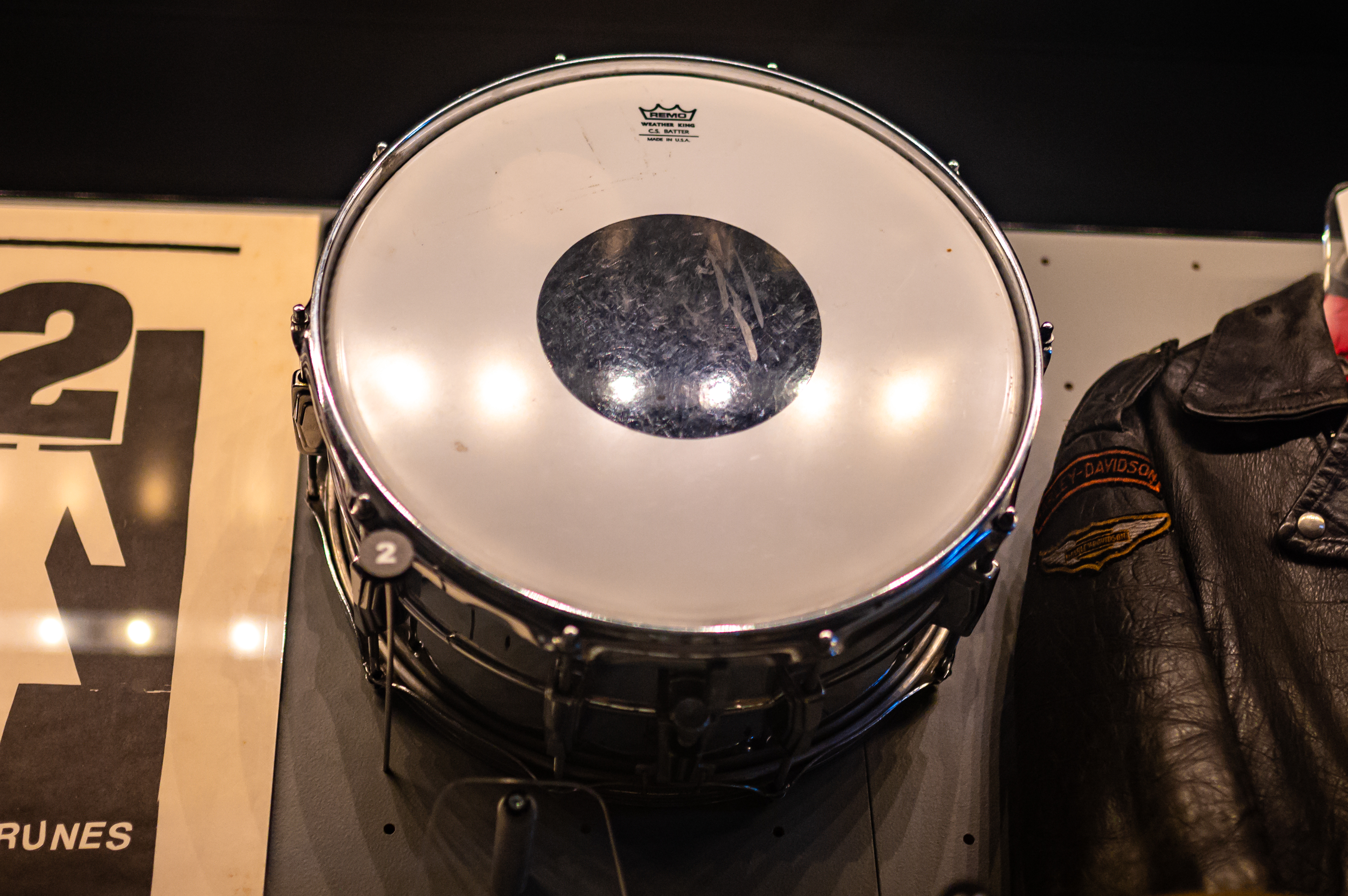 Memorabilia from U2's career on display in the Rock and Roll Hall of Fame in Cleveland, Ohio